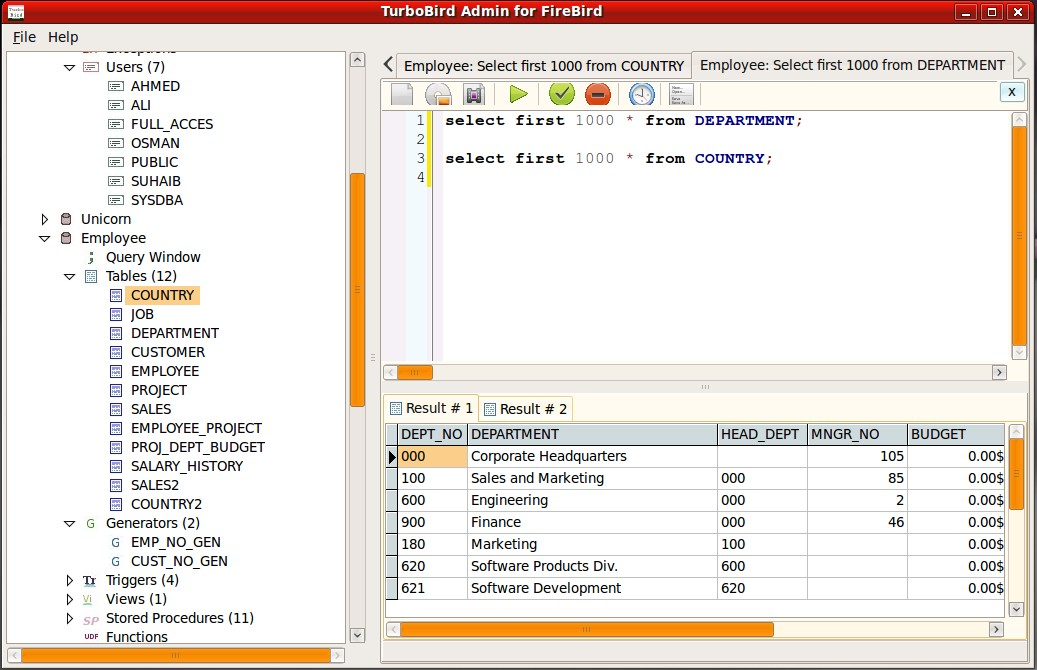 TurboBird admin tool for FireBird database